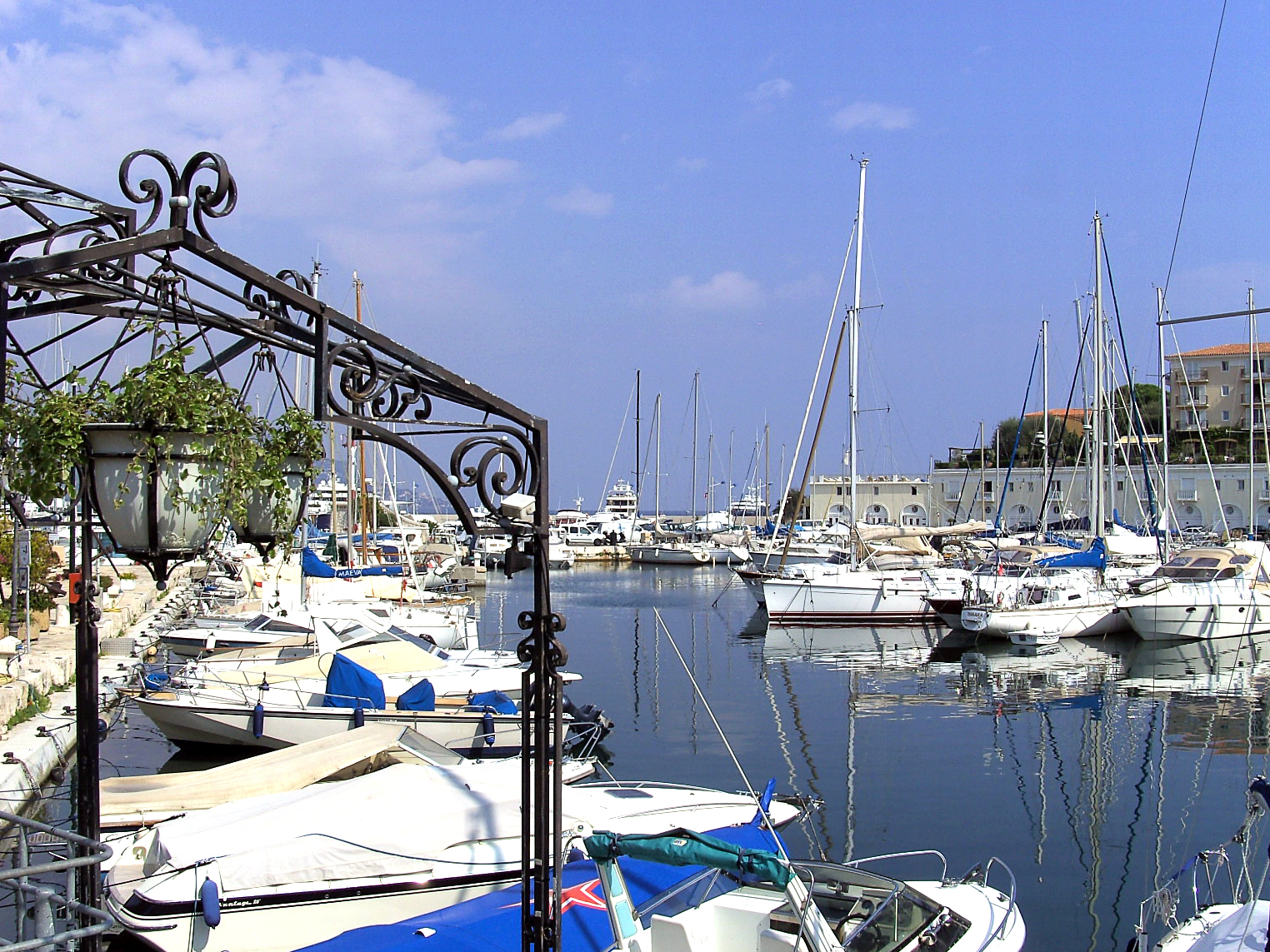 Marina of Saint-Jean-Cap-Ferrat